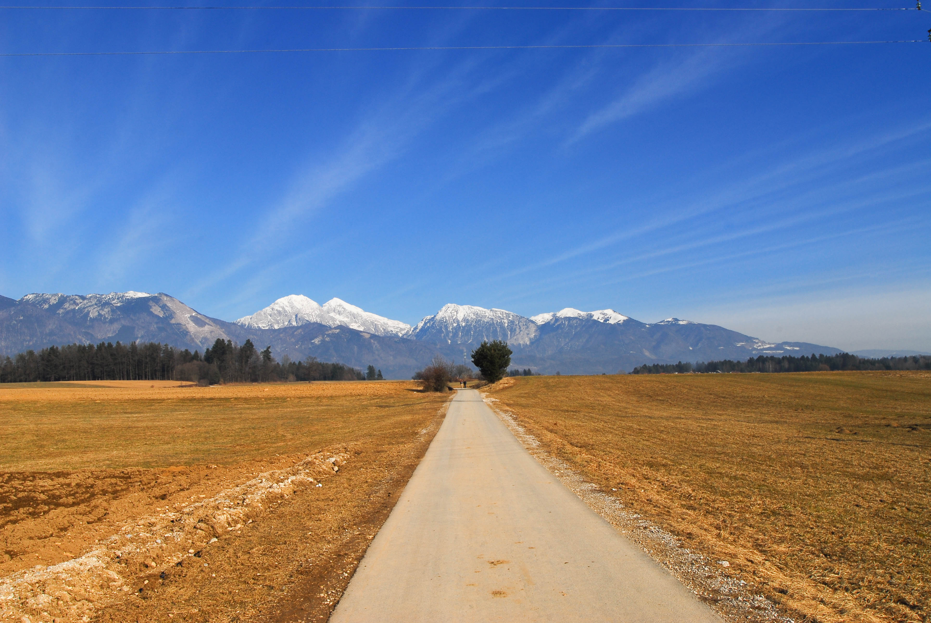 View on Kamniško Savinjske alpe from Kranj